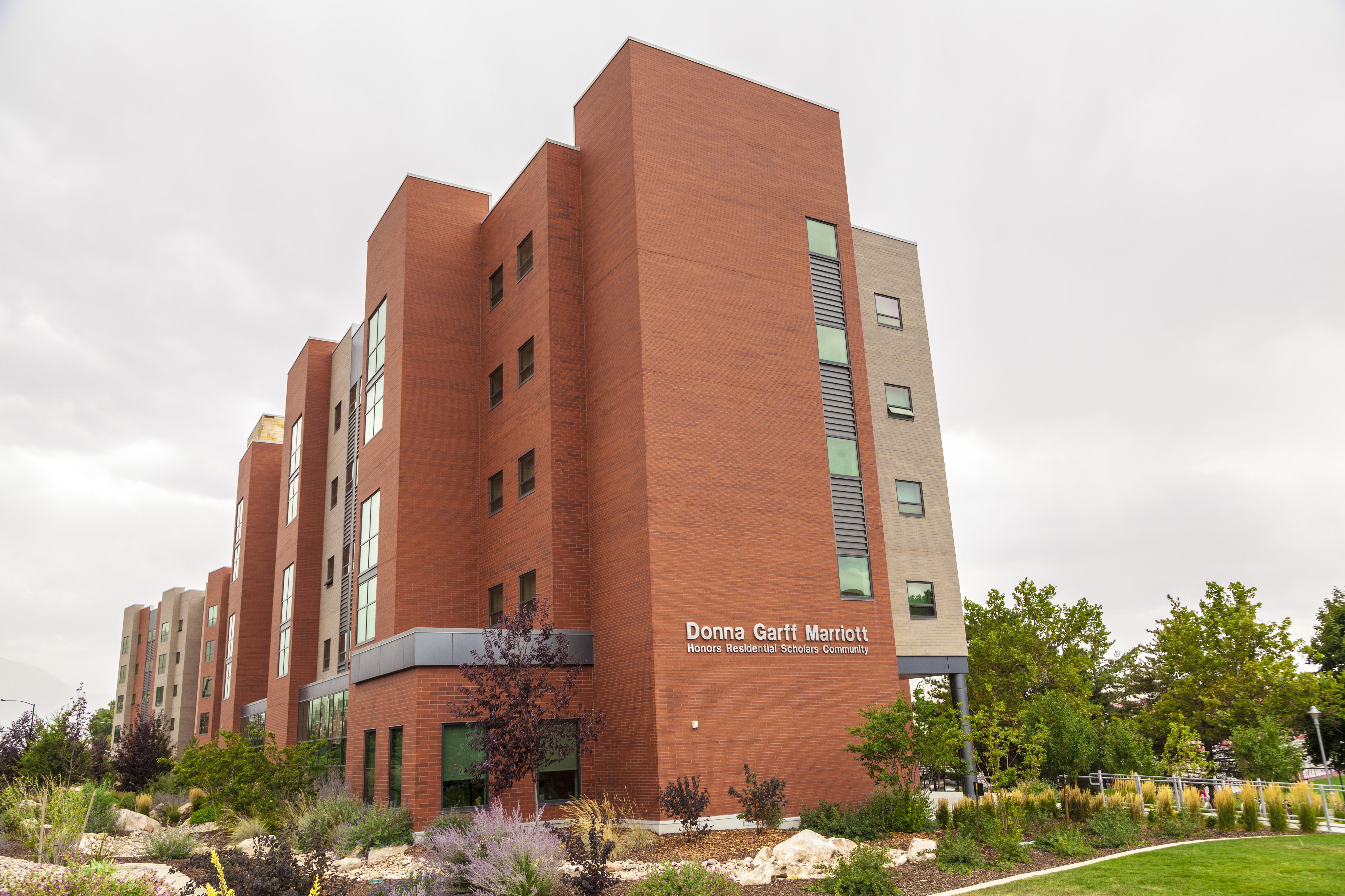 Donna Garff Marriott Honors Residential Scholars Community at the University of Utah in Salt Lake City, Utah, USA.